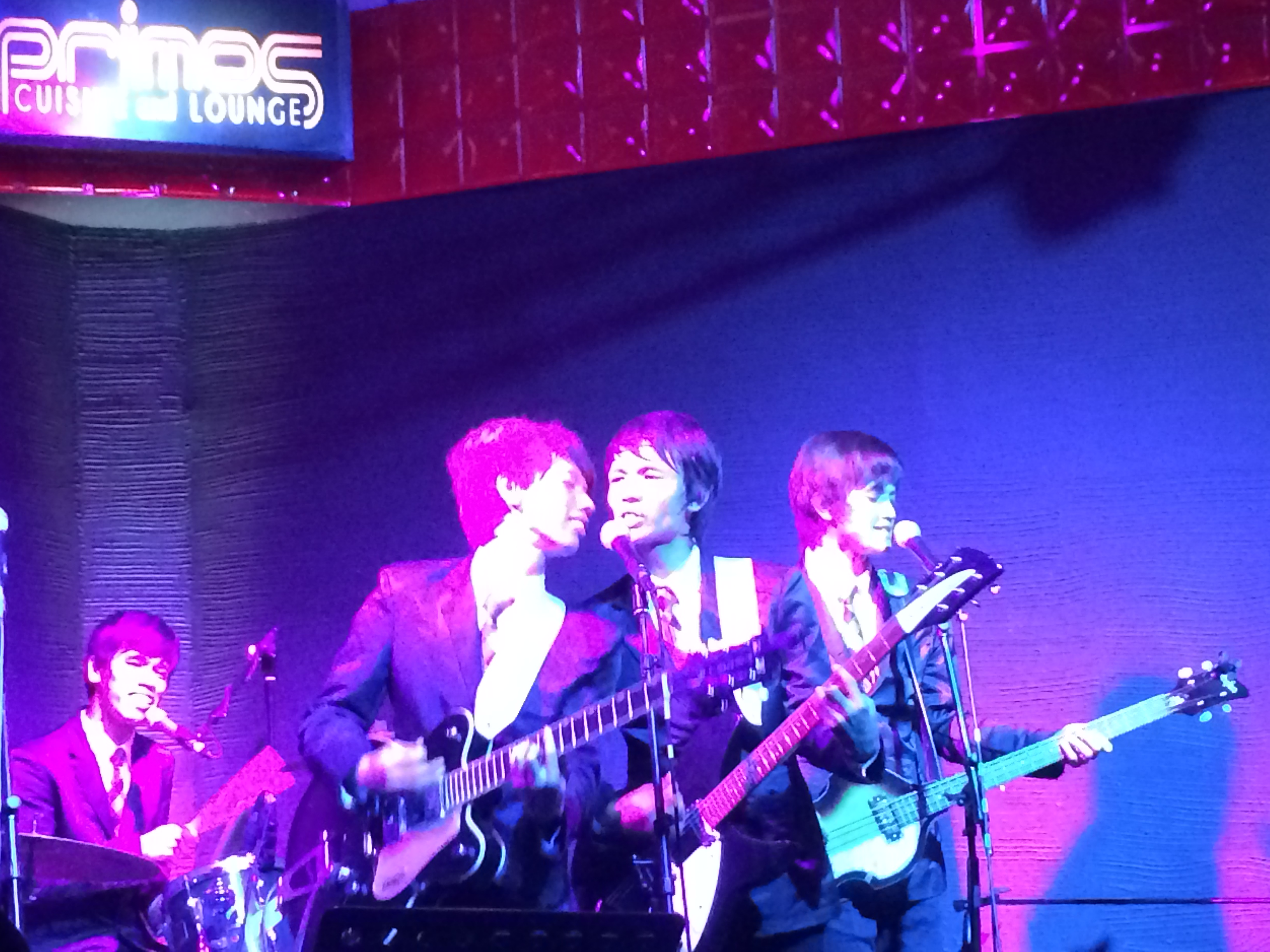 Reo Brothers Band performed in Primos Cuisine and Lounge